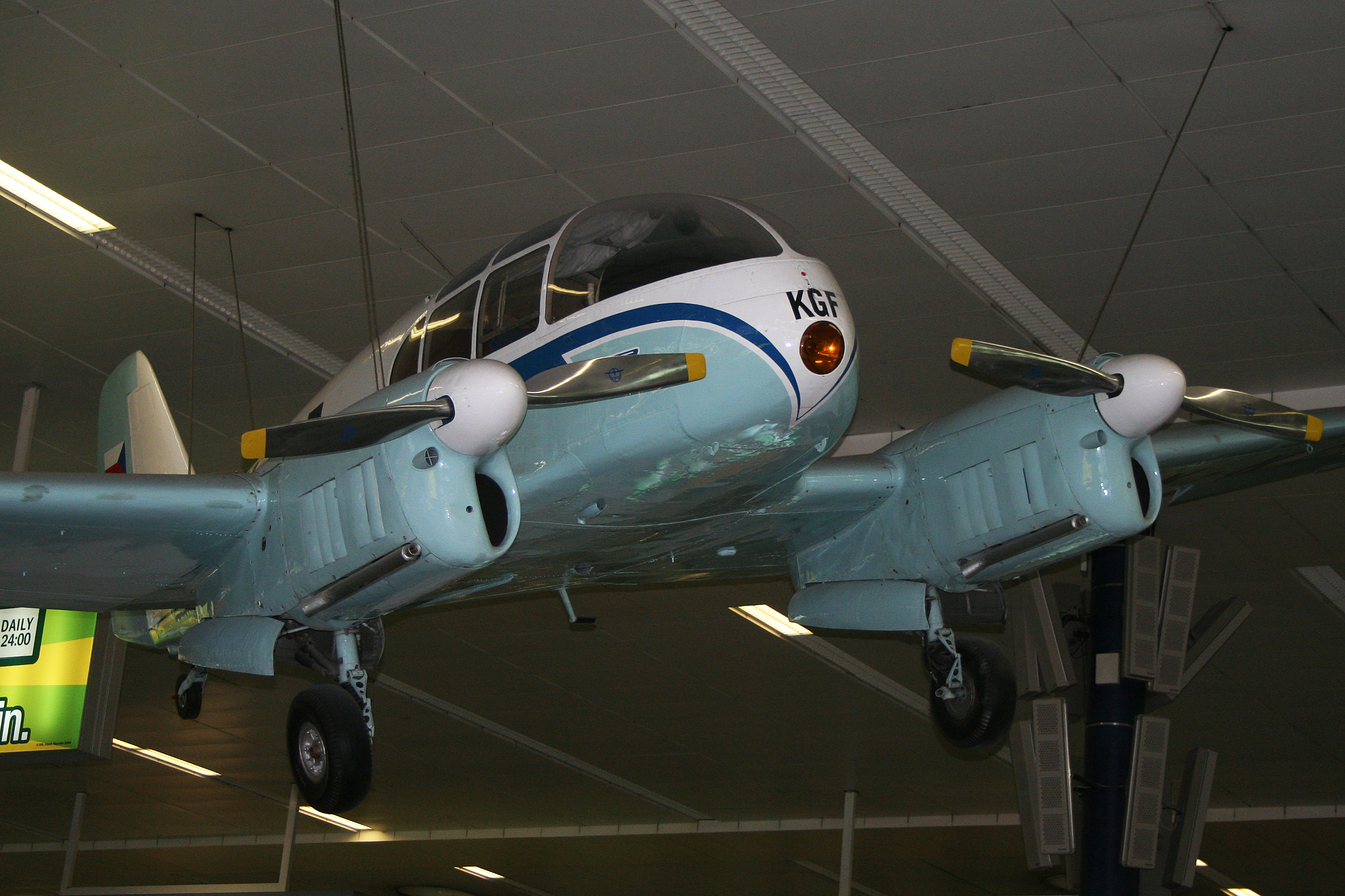 msn 170419. Displayed inside Terminal 1 of Prague Airport, Czech Republic. 08-10-2012